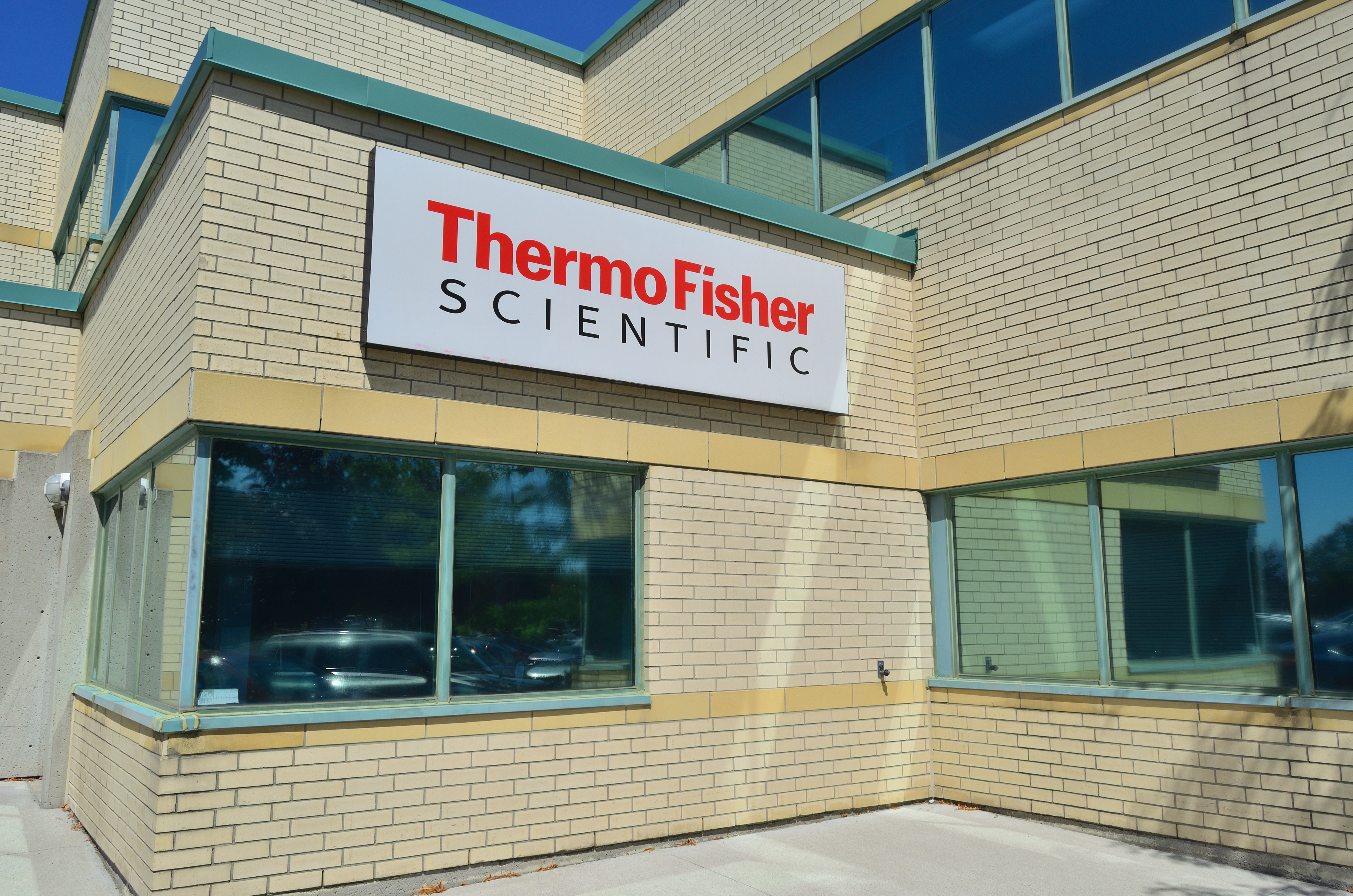 Thermo Fisher Scientific Markham office - Address: 145 Renfrew Drive, Markham, ON L3R 0N9